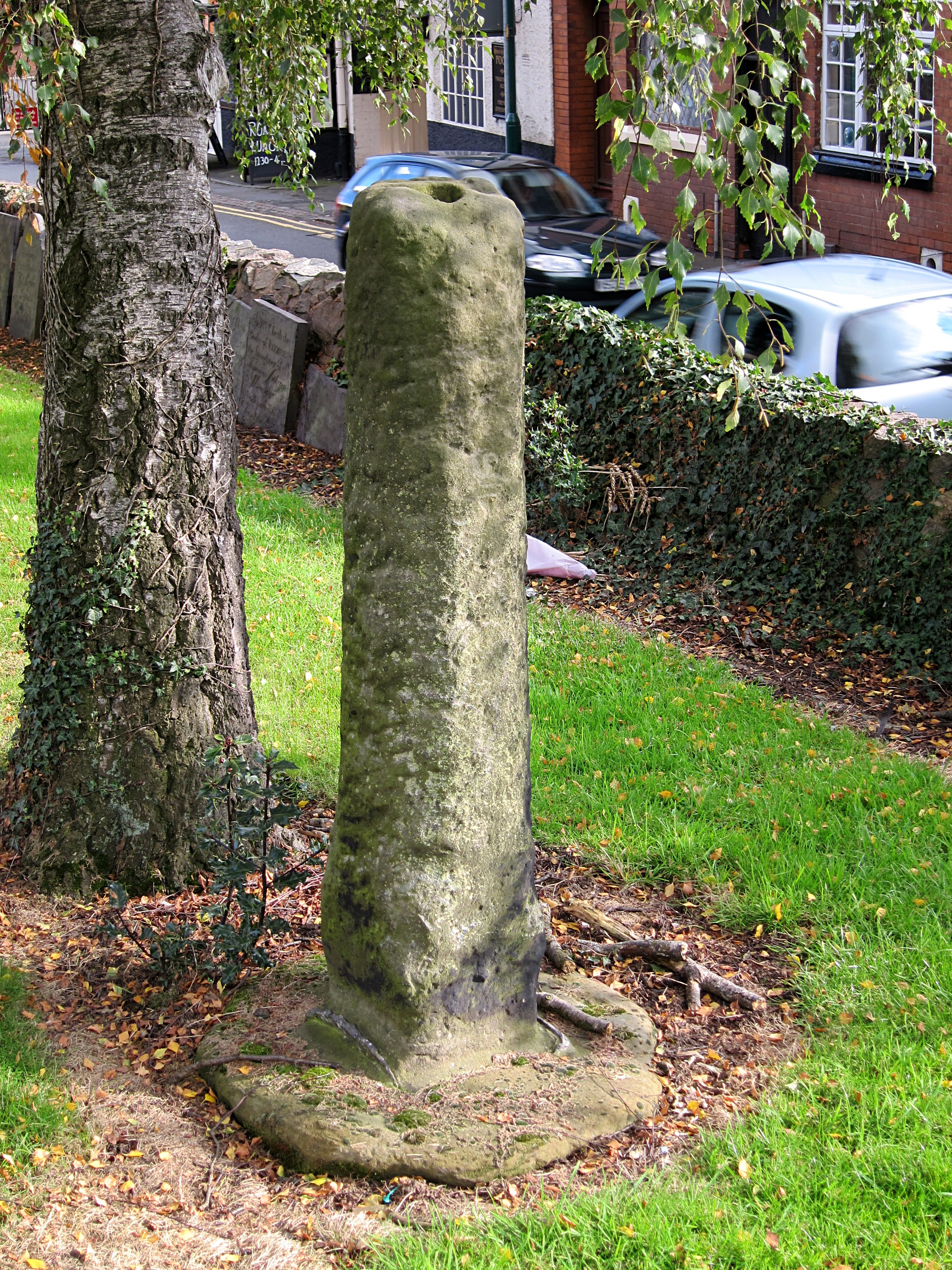 Shaft of medieval stone cross in St Mary's parish churchyard, Anstey, Leicestershire